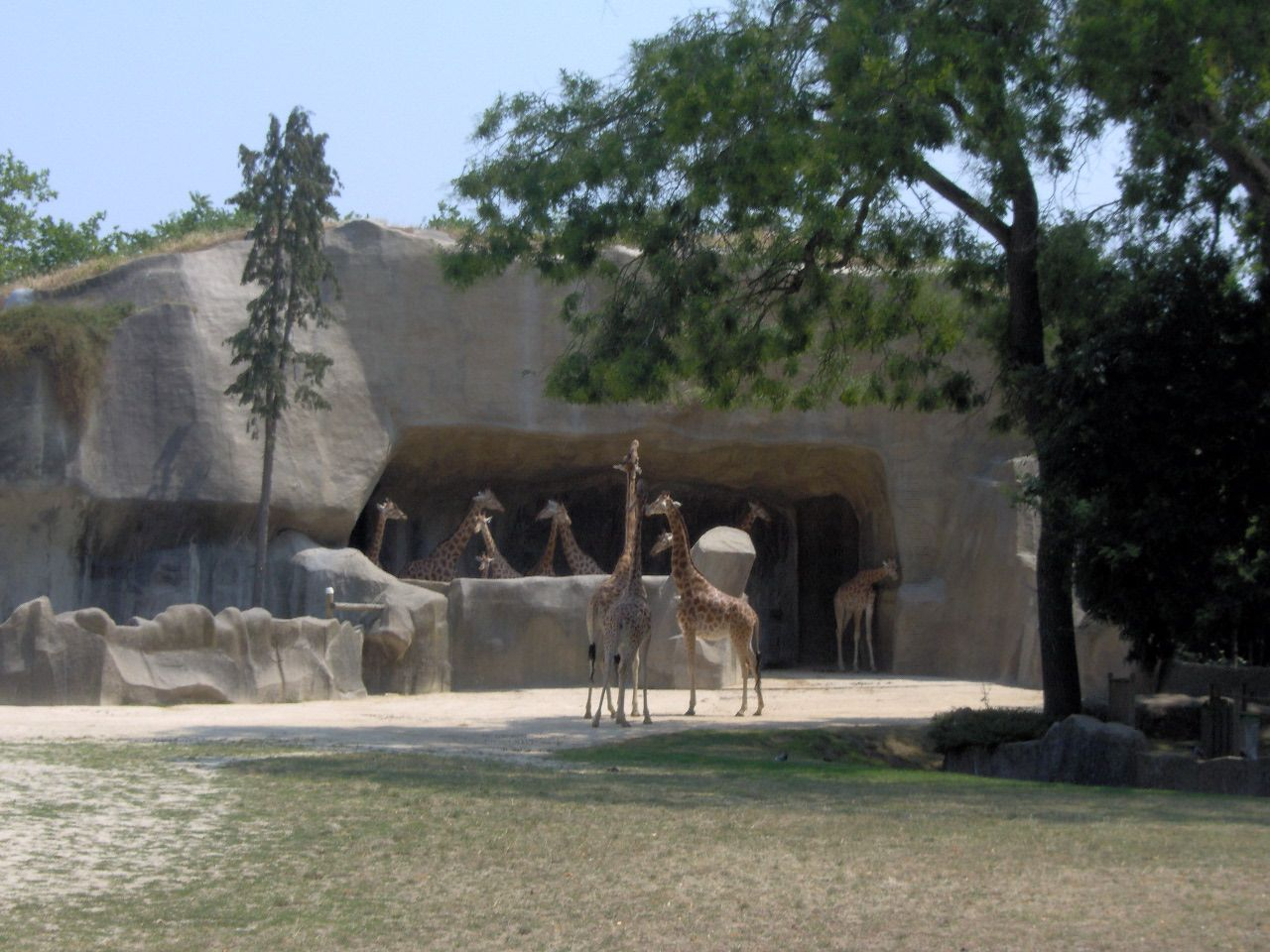 Kordofan Giraffes, Paris, Vincennes